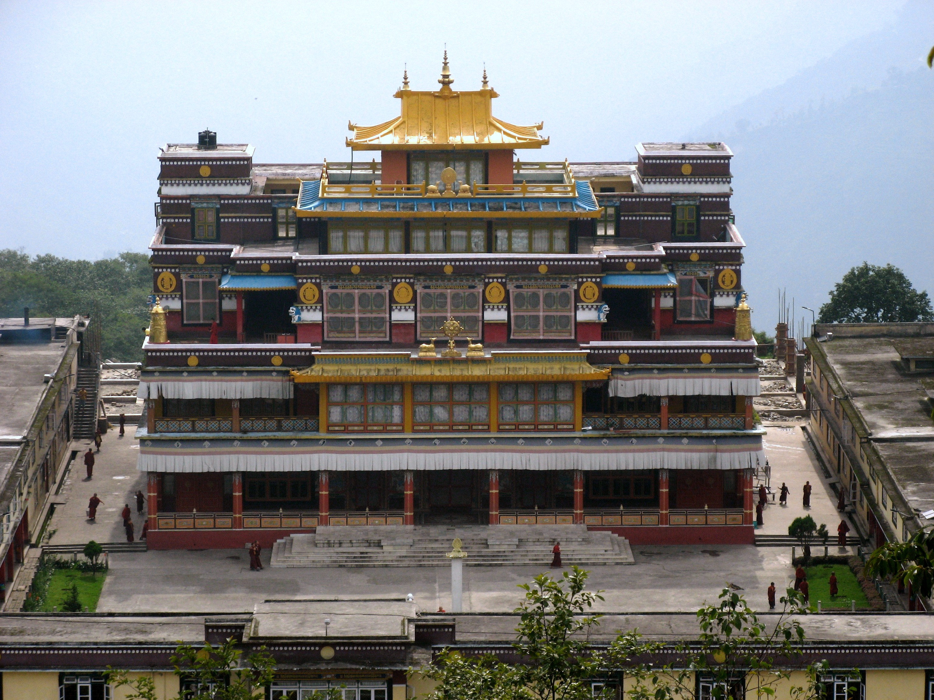 top view of the new monastery and the lama's quarters at ralong, which is about 13kms. from the town of rabong or ravangla.